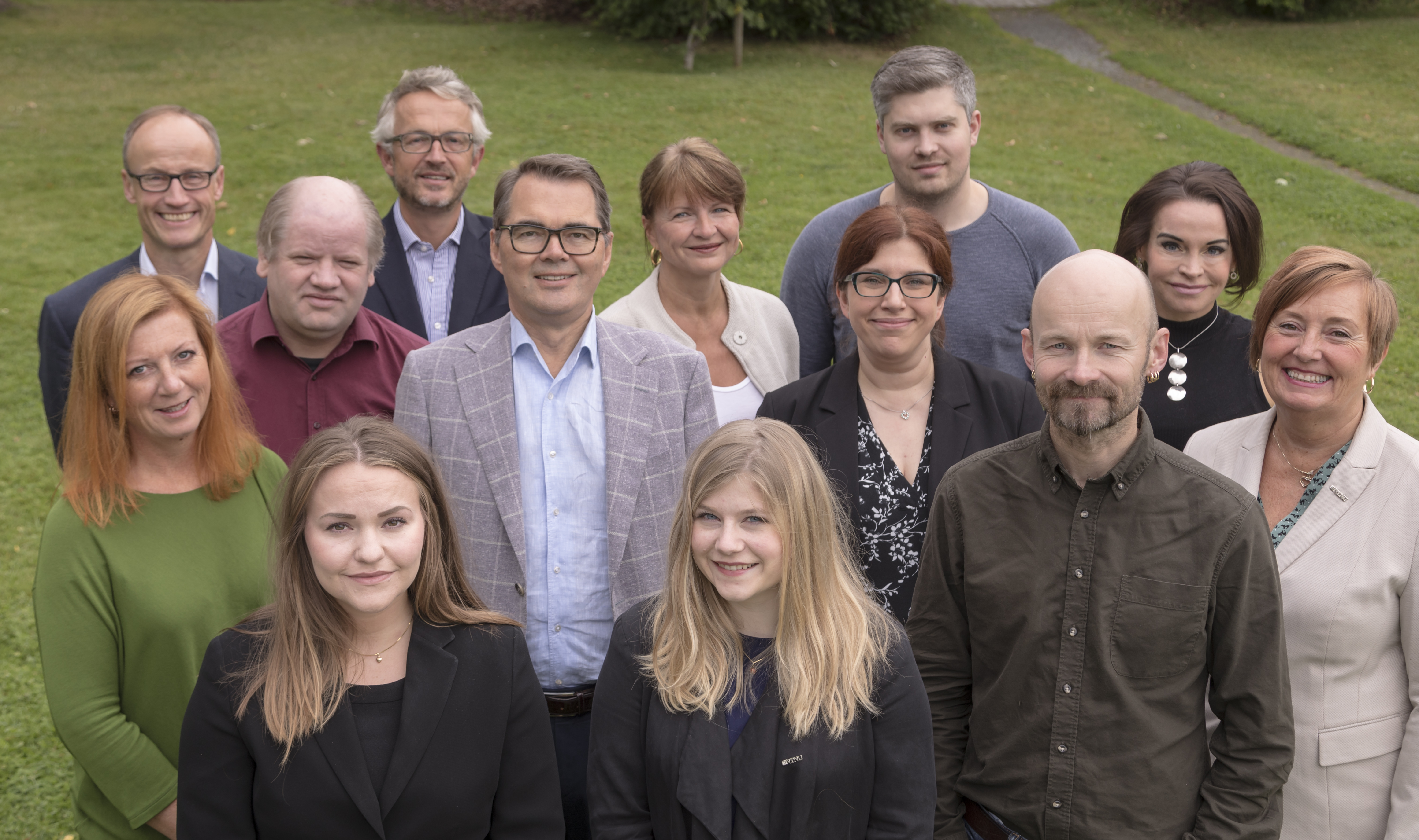 The new board of the Norwegian University of Science and Technology (NTNU) as of 2017-08-01